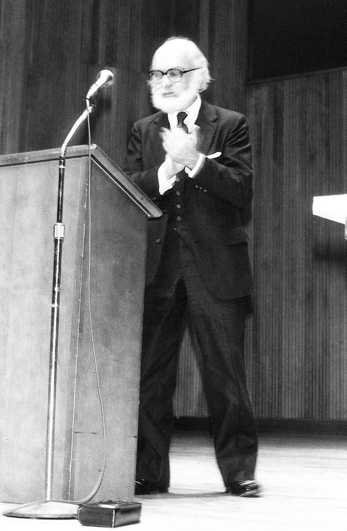 James (The Amazing) Randi speaks at the 1983 CSICOP Conference in Buffalo, NY